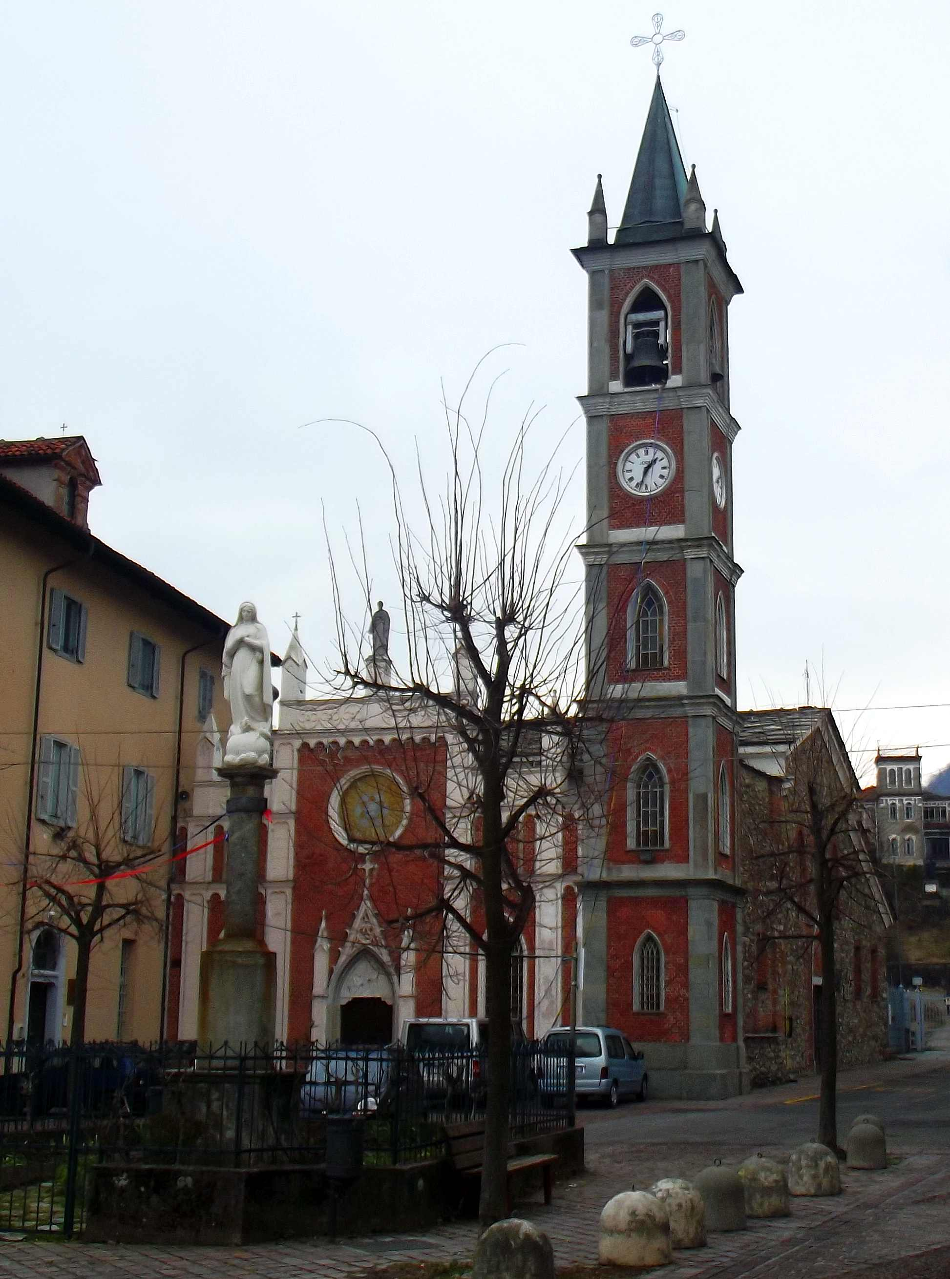 Lanzo (TO, Italy): san Pietro in Vincoli